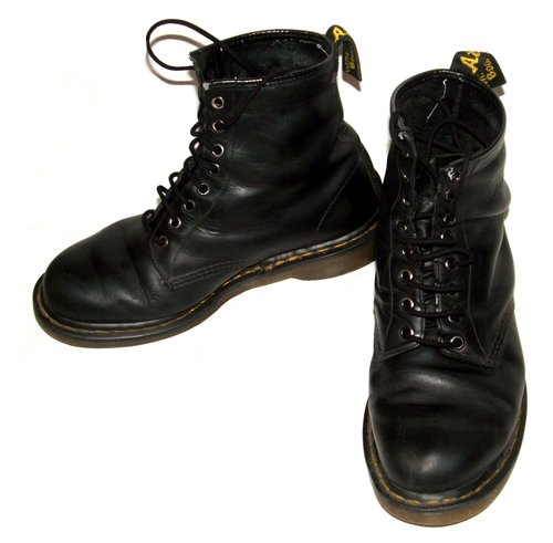 Dr. Martens 1460 worn.